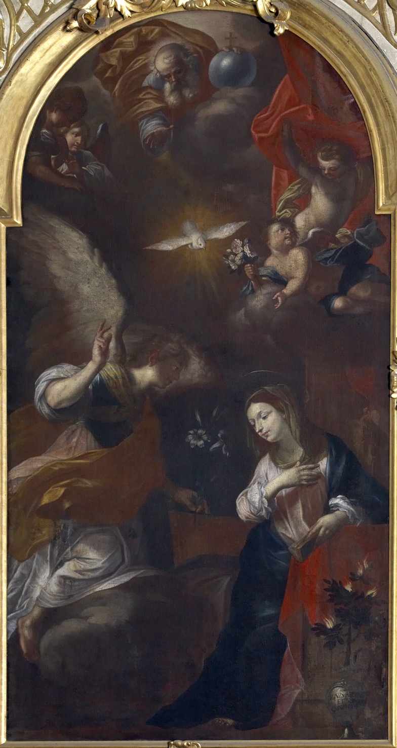 Johann Friedrich Hess, Annunciation, 1664 Pilgrimage Church in Stará Boleslav (Czech Republic)